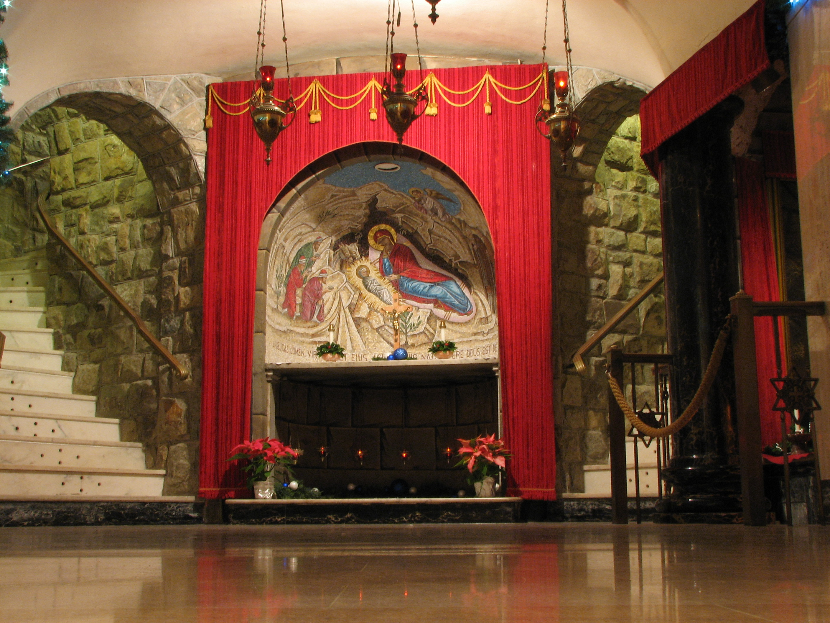 The copy of the Grotto of the Nativity in Franciscan Monastery (Washington, DC)